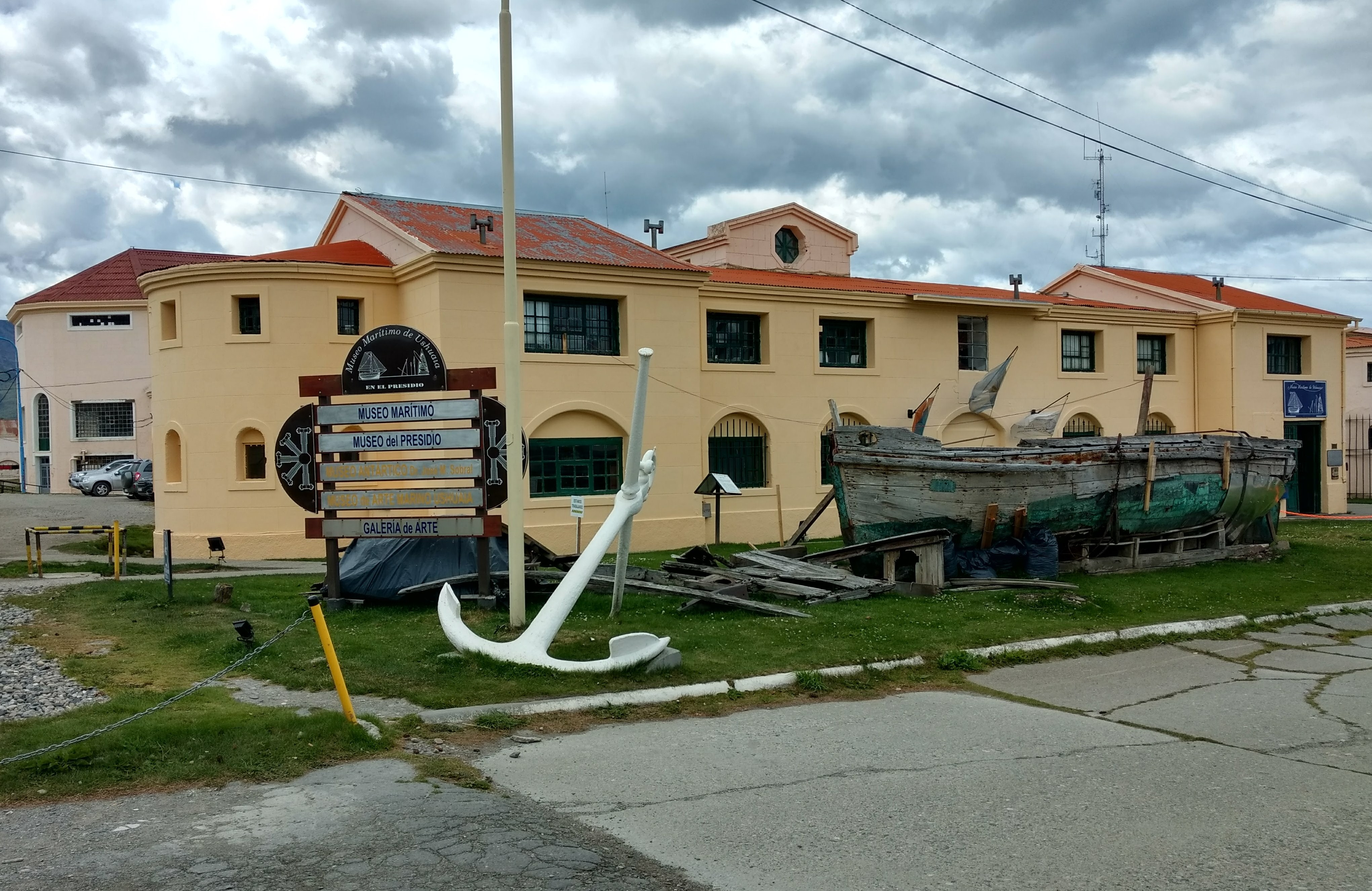 Maritime museum in Ushuaia, Argentina